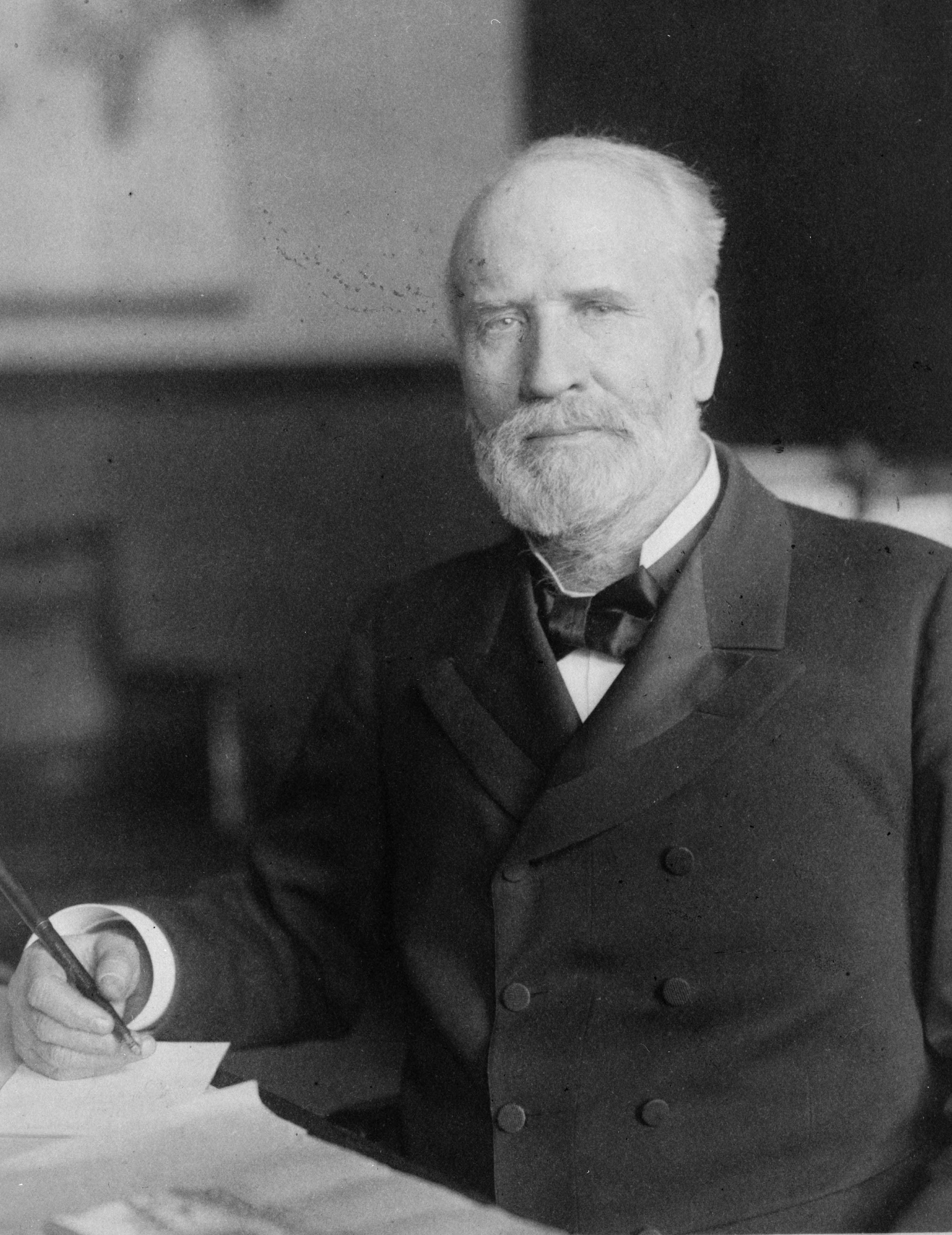 James Wilson, half-length portrait, seated at desk, facing slightly left